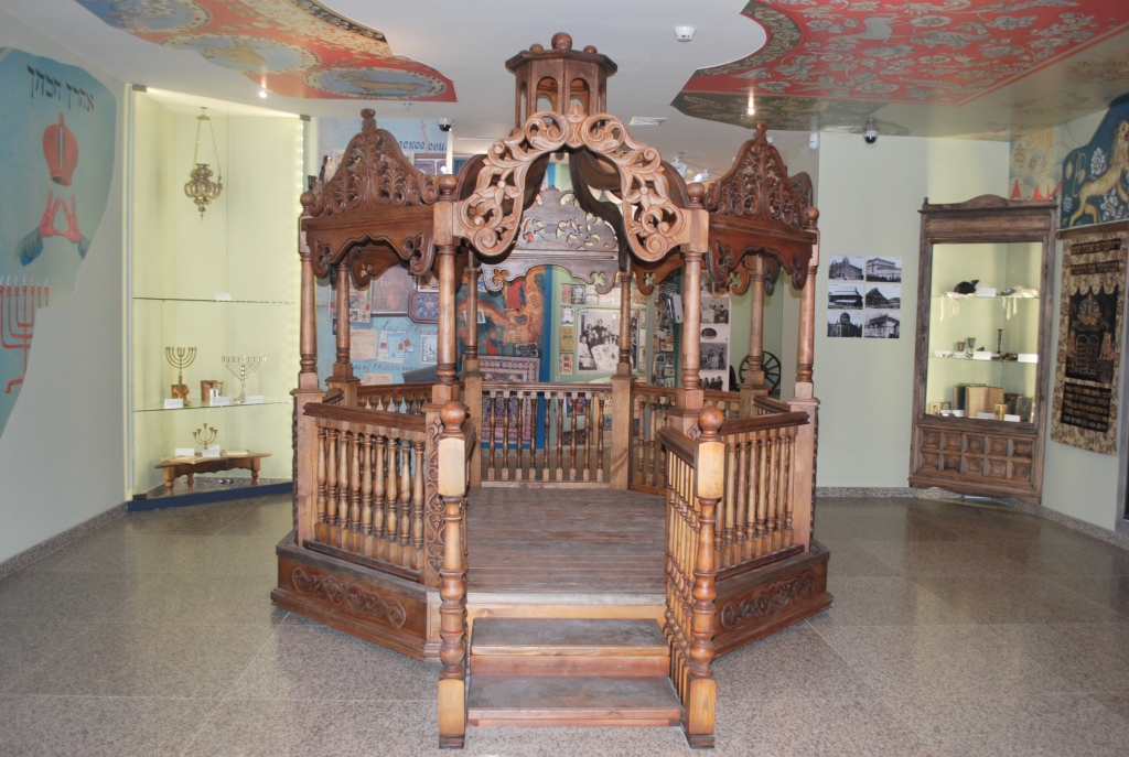 1 hall of the Museum, dedicated to Judaism.